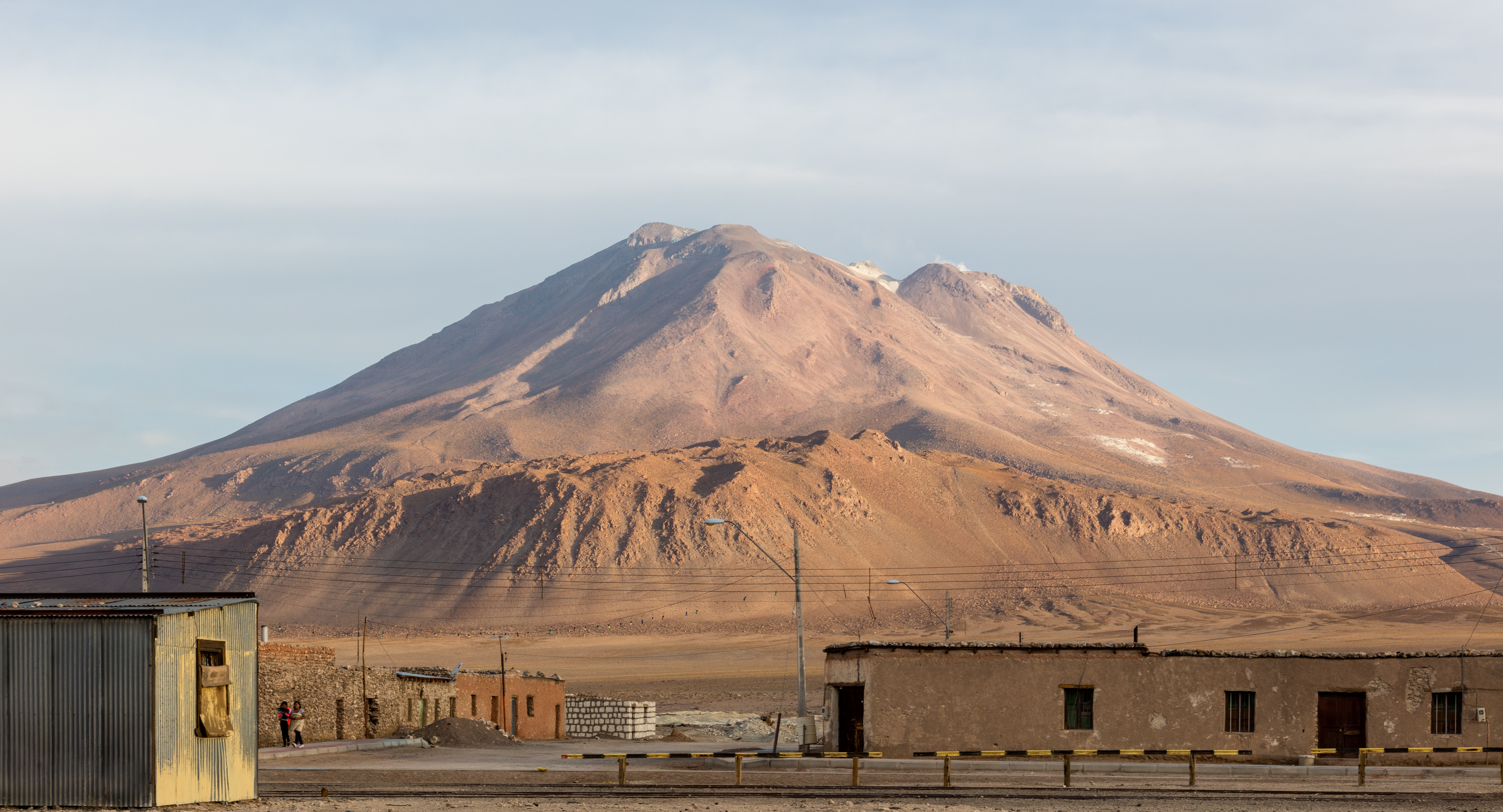 View of the Ollagüe volcano from Ollagüe, Chile